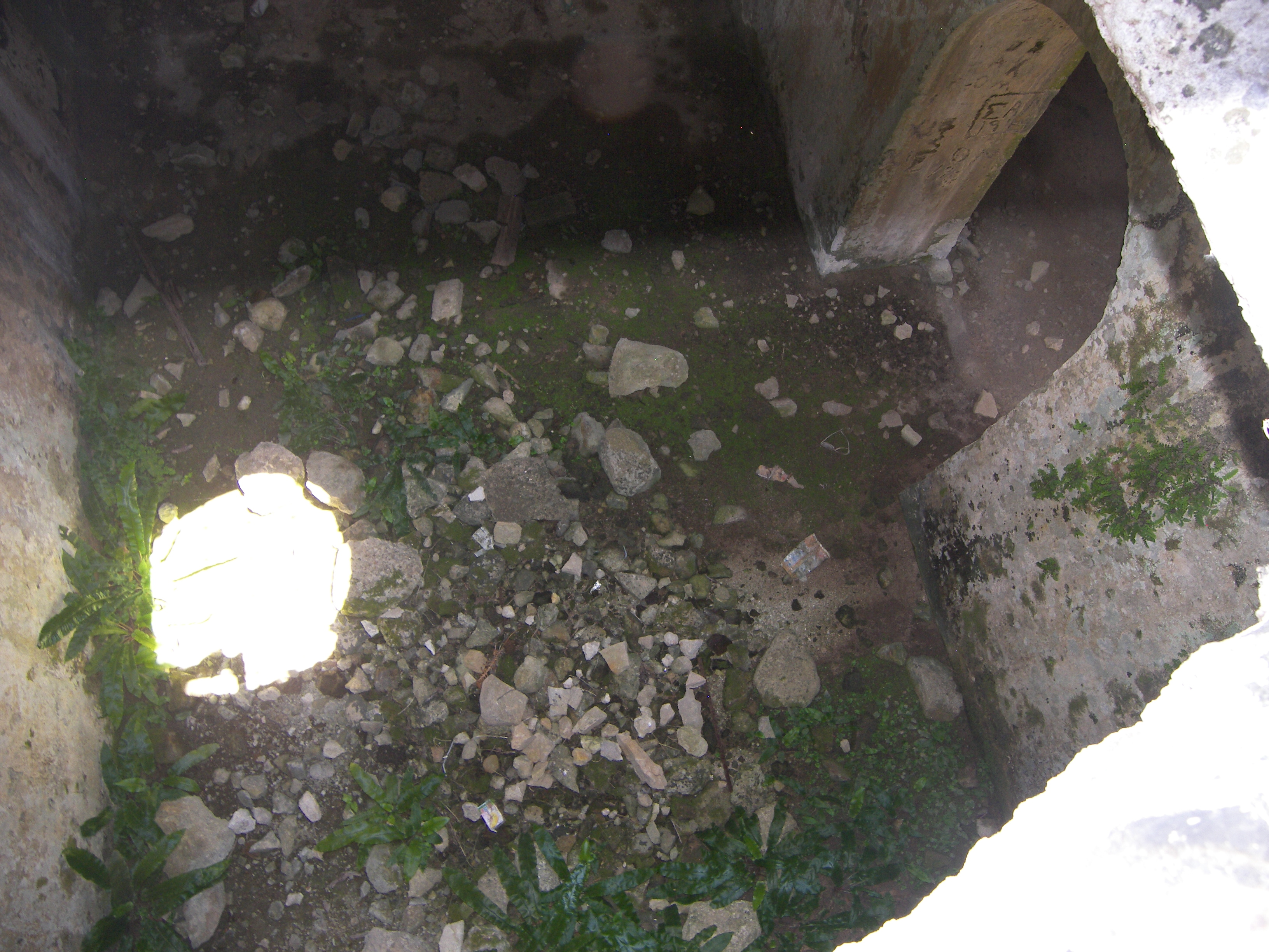 Underground Chamber at Corfu Angelokastro